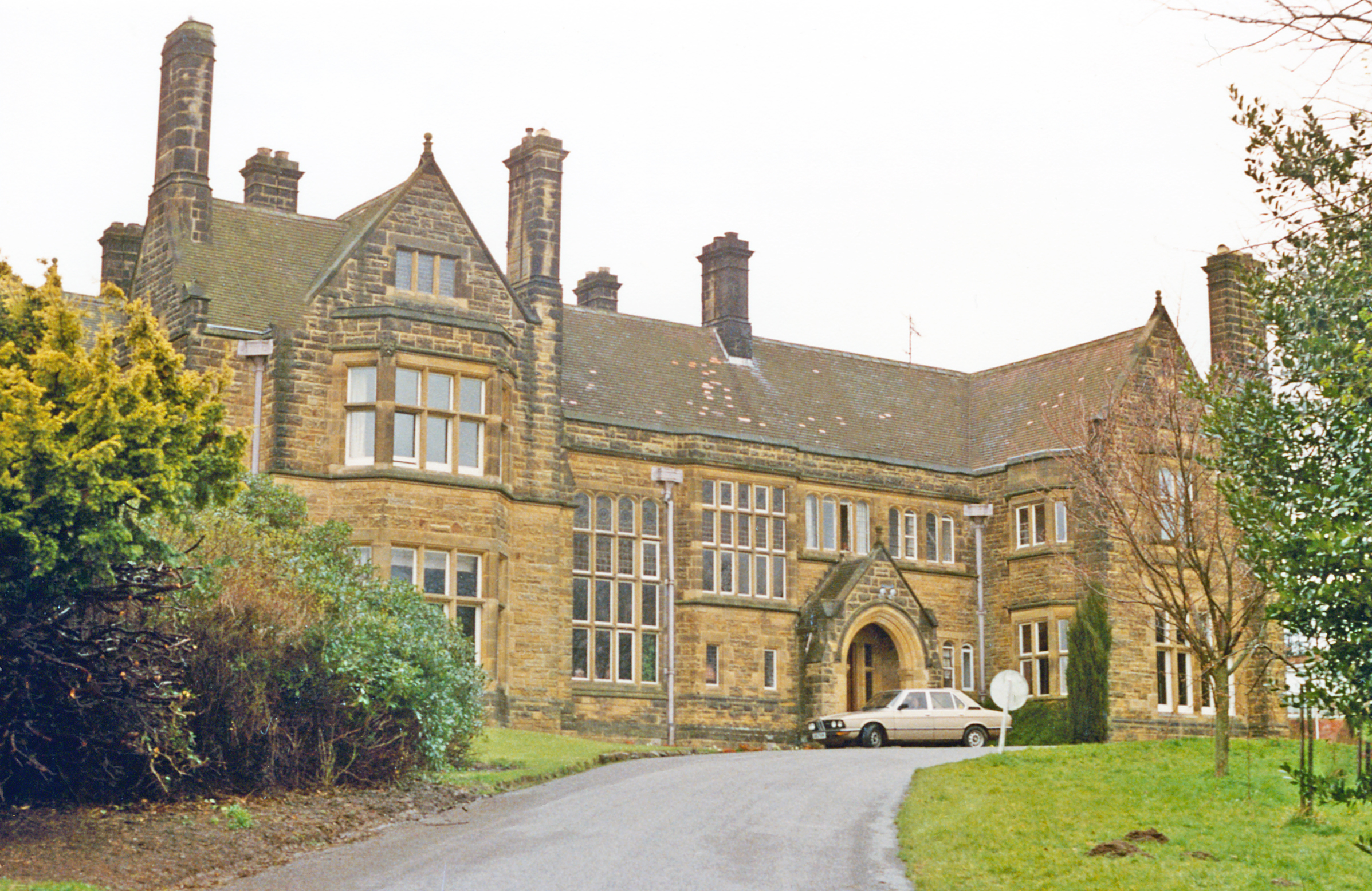 Wrea Head Hall Hotel, Scalby Taken Tuesday, 28 March 1989 by Ben Brooksbank